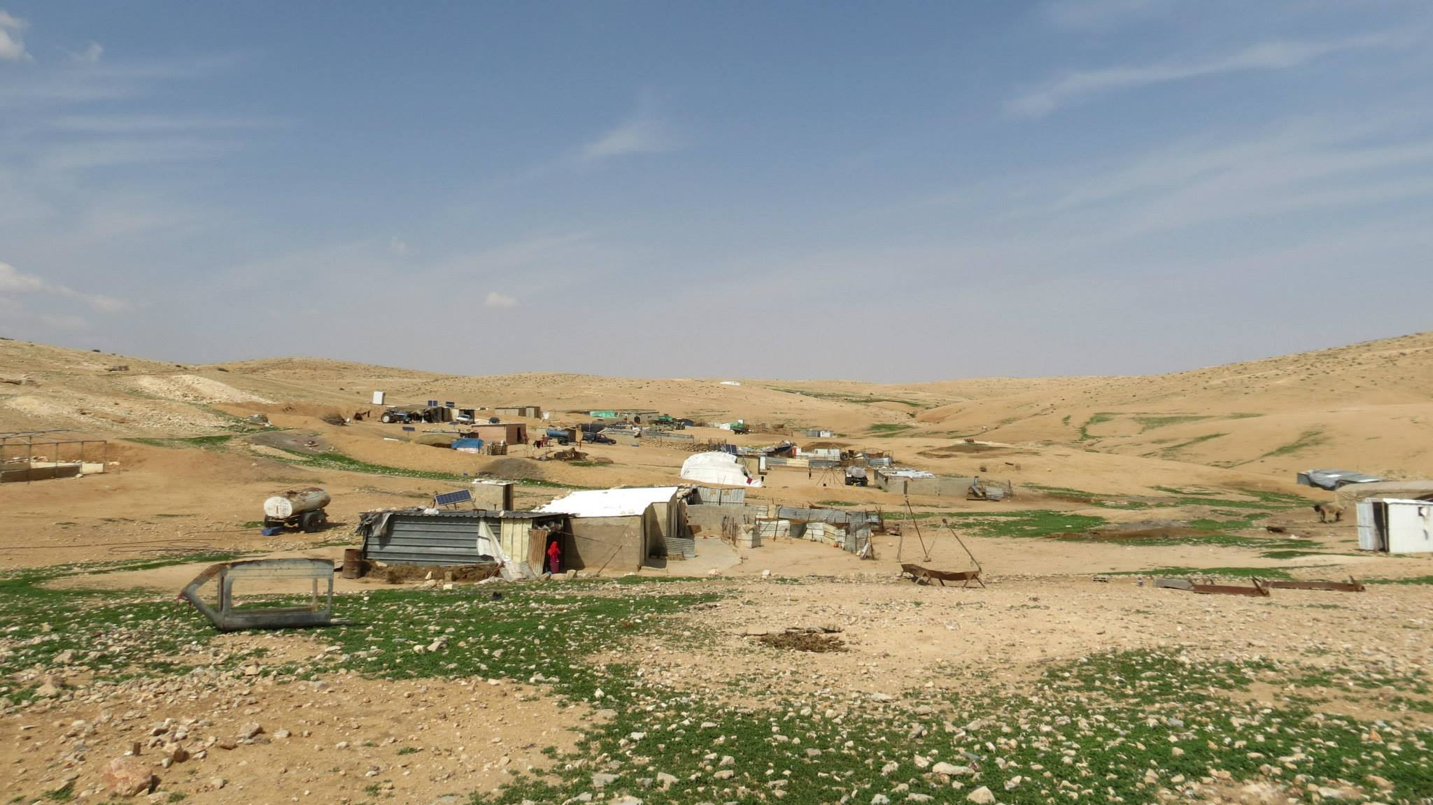 The Bedouin Village Dkeika, south Hebron hills